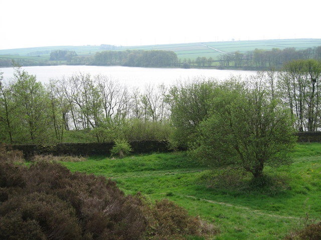 Ingbirchworth Reservoir. Looking from the picnic area at Summer Ford Hill near the Fountain Inn. See the reverse view and more photos at SE2105.